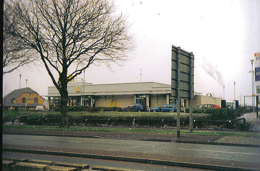 The McDonald's restaurant in Dudley Town, West Midlands County in 2002.